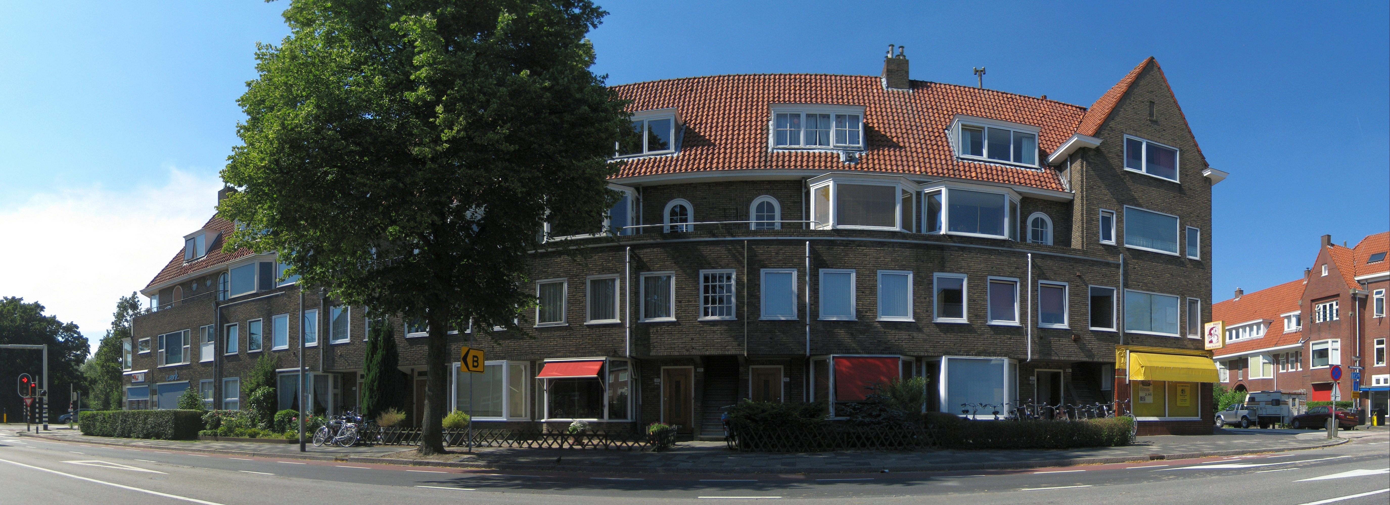 Houses in the Dutch city of Groningen.